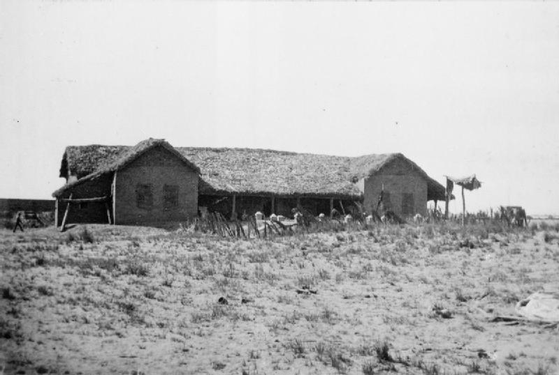 General Kitchener and the Anglo-egyptian Nile Campaign, 1898 General Kitchener's headquarters at Atbara Fort, consisting of a bungalow with a thatched roof.